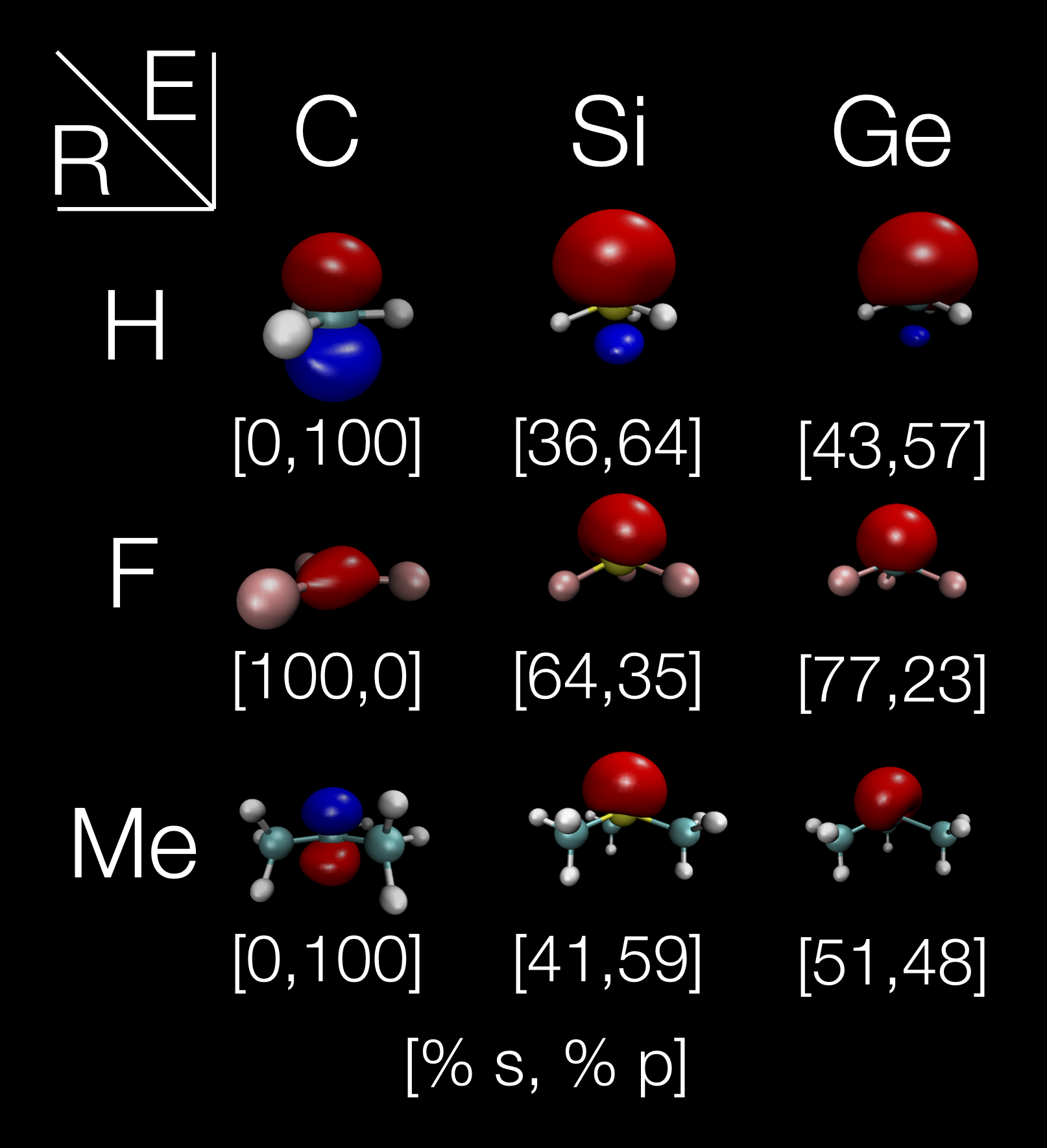 The natural bond orbitals (NBO) corresponding to the unpaired electron in various simple trivalent tetral radicals (R3E• for E = C, Si, Ge and R = H, F, Me). Each NBO is decomposed into the percent composition of valent s- and p-orbital contributions.